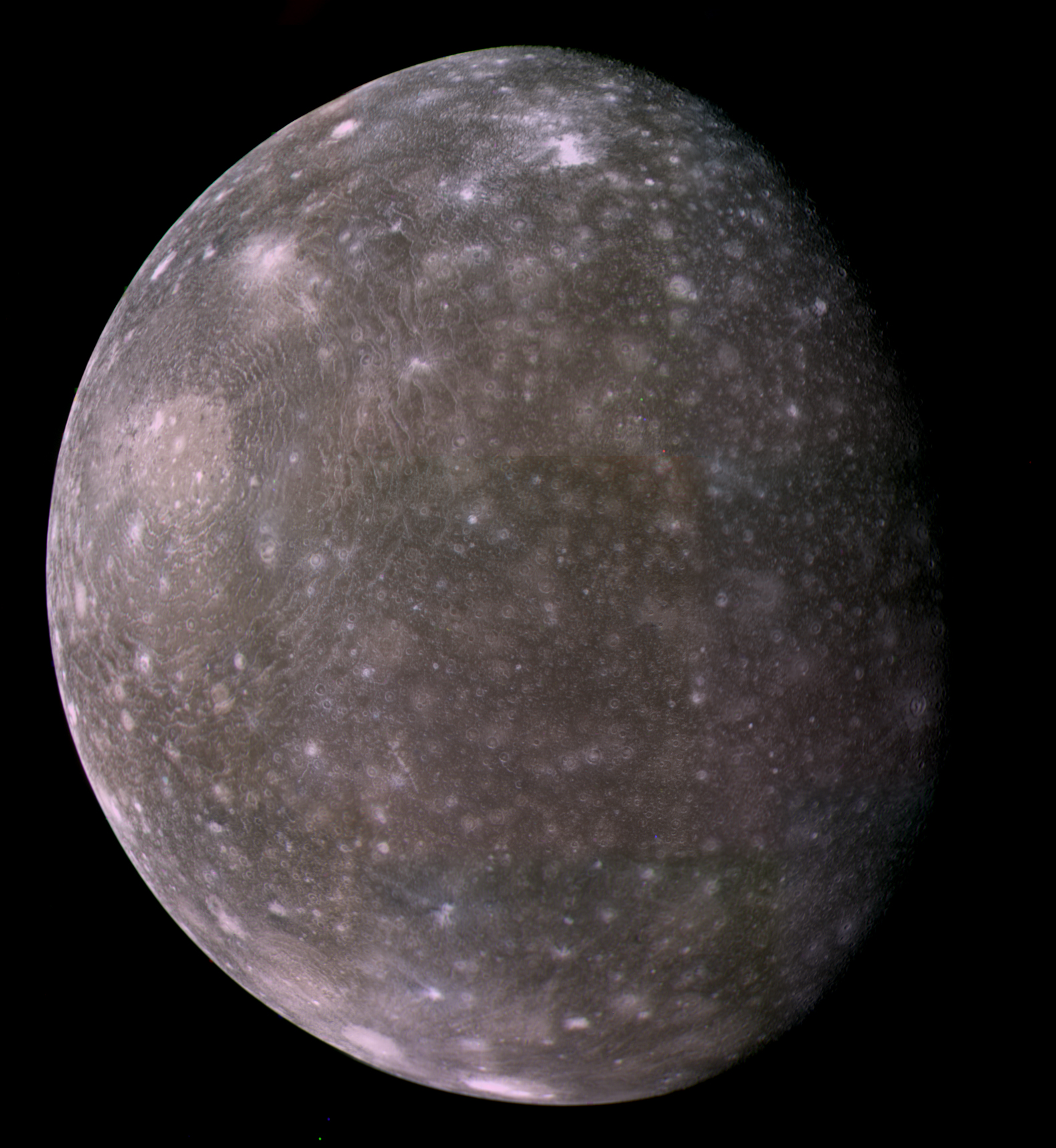 Assembled using green, blue, and violet filtered images taken by Voyager 1 on March 6 1979. NASA/JPL-Caltech/Kevin M. Gill